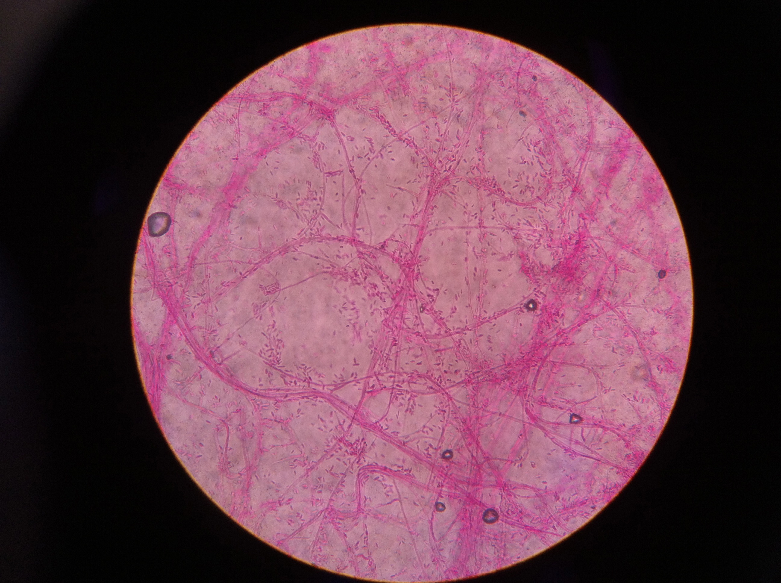 A Lactofuchsin Mount performed on an unidentified fungi grown on an MEA plate, from 30 minutes of air exposure.